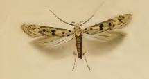 Stainton’s Natural History of the Tineina (1855–1873): Bryotropha domestica